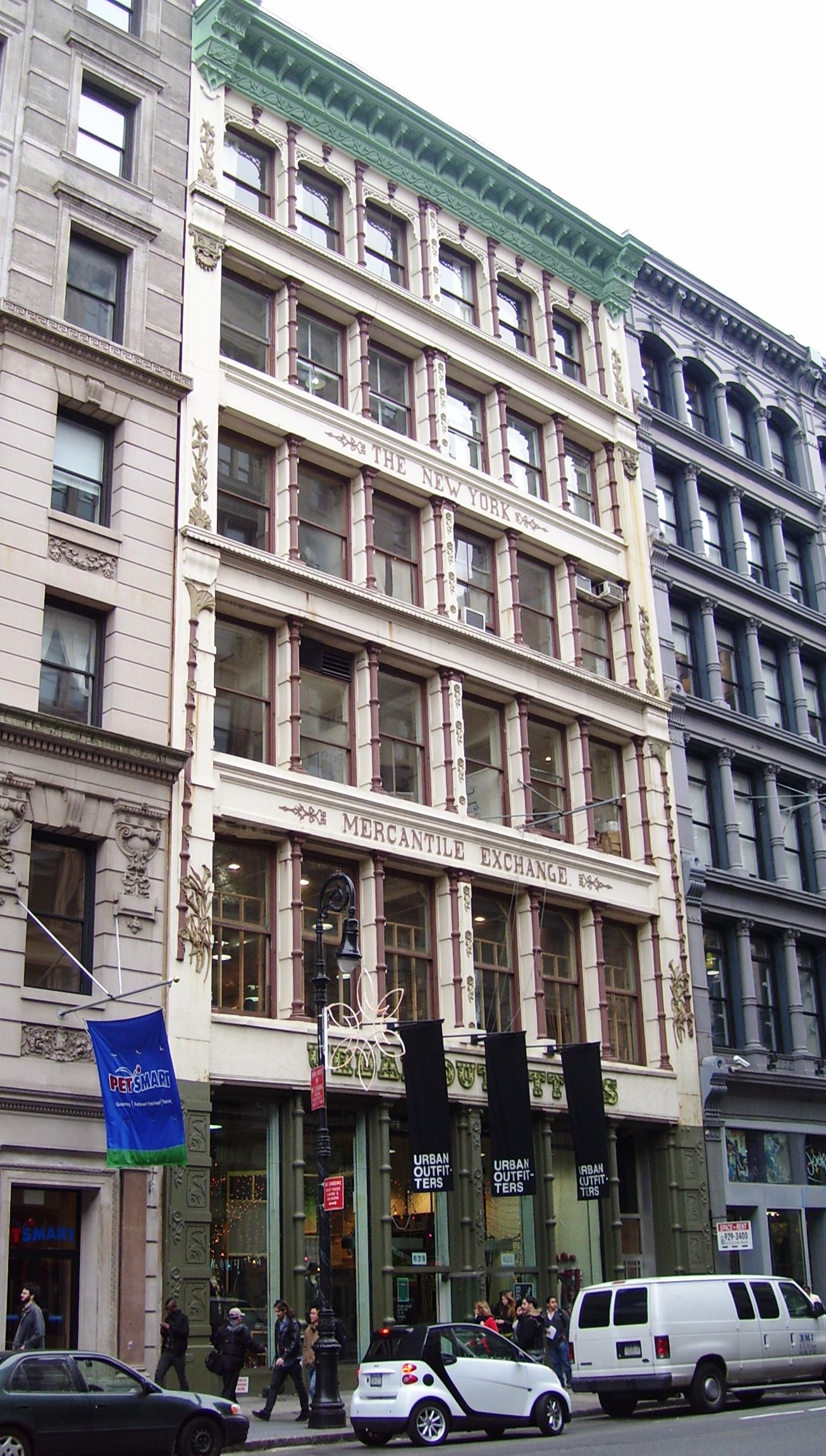 The New York Mercantile Exhange at 628 Broadway between Bleecker and Houston Streets in the NoHo section of Manhattan, New York City was built in 1882 and designed by Herman J. Schwarzmann with Buchman & Deisler. (Source: AIA4 Guide to NYC (4th ed.))